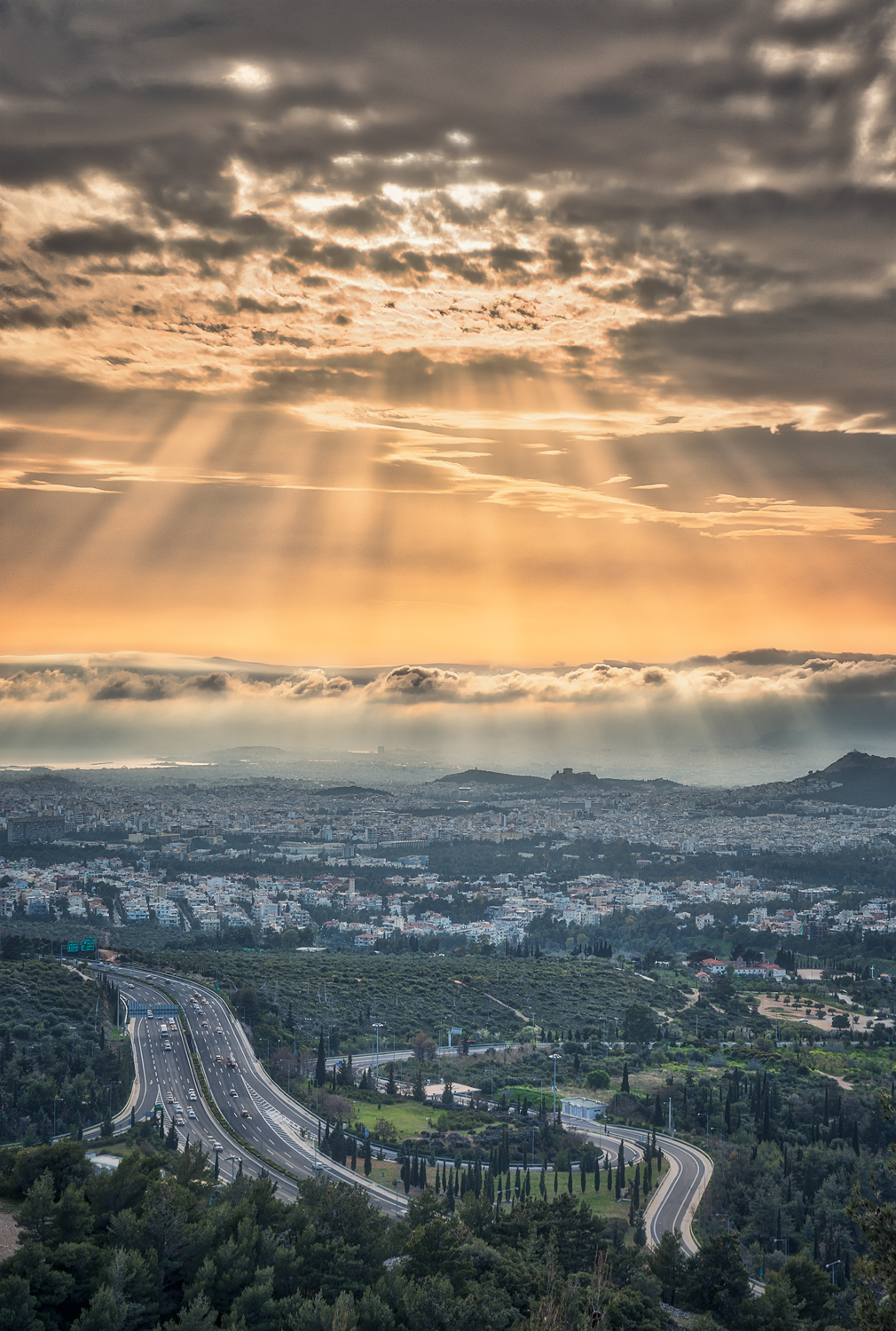 This is a photography of Natura 2000 protected area with ID GR3000006